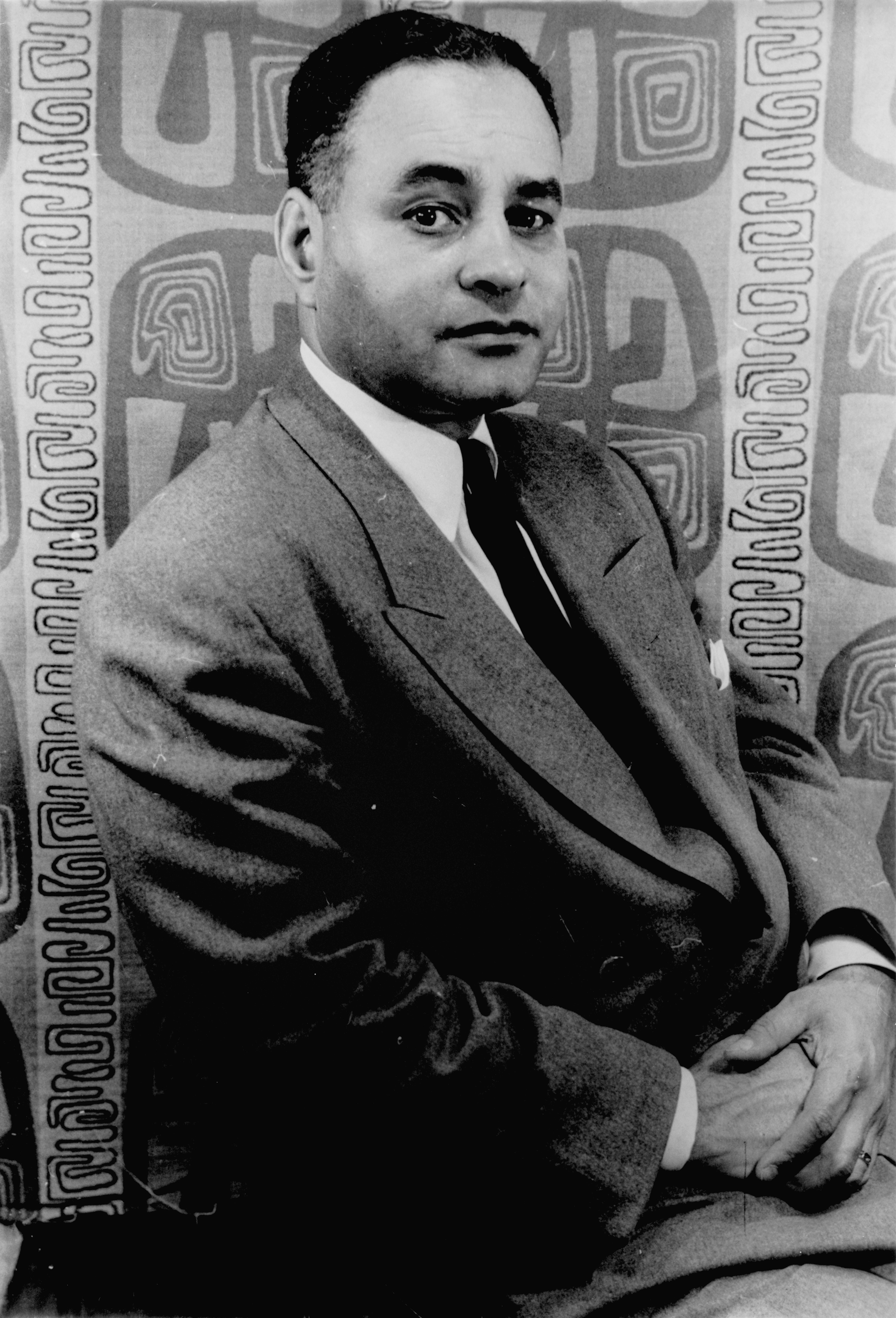 Ralph Bunche photographed by Carl Van Vechten, 1951.